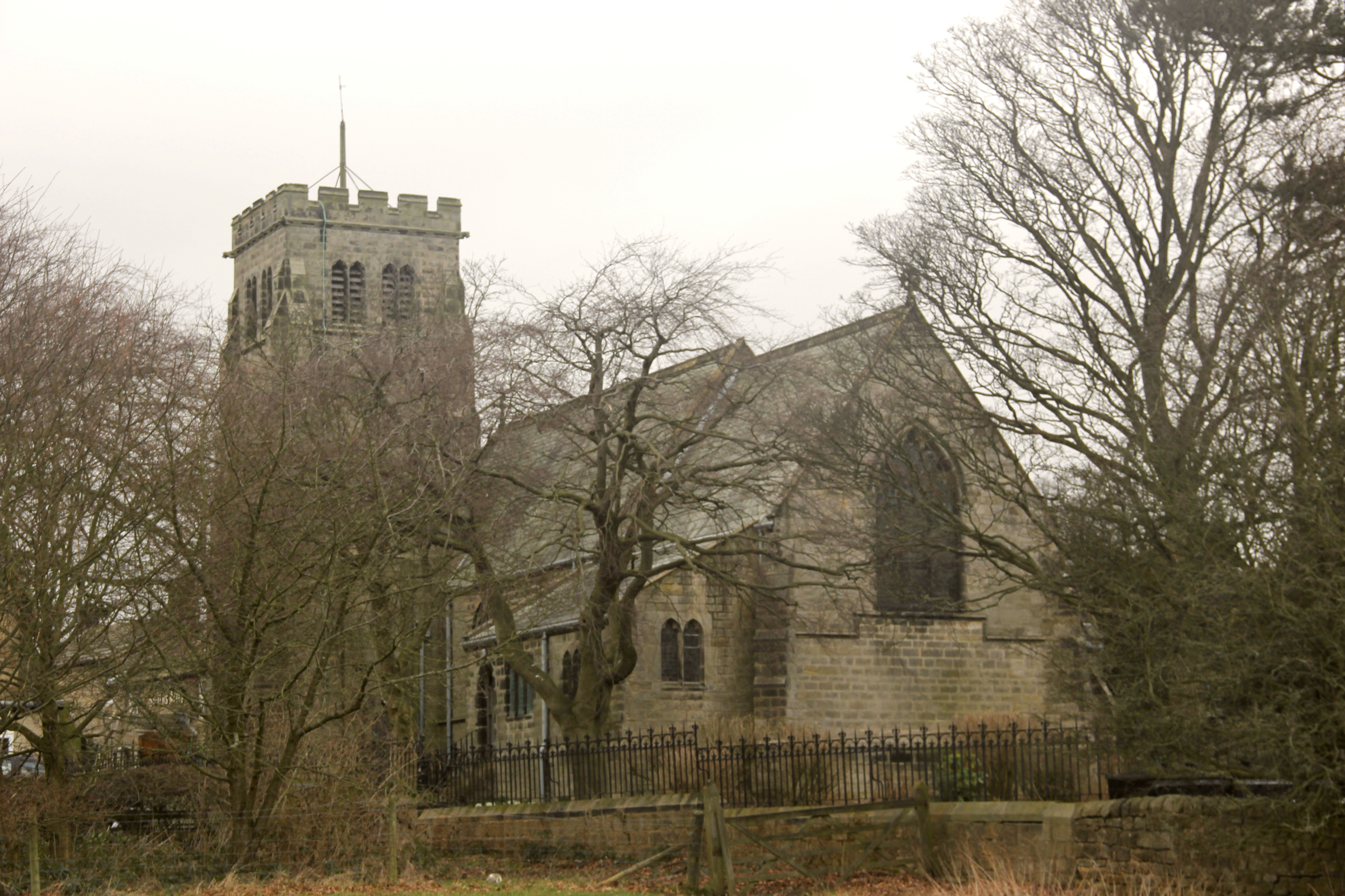 St Michael and All Angels Church, Beckwithshaw, North Yorkshire, England.